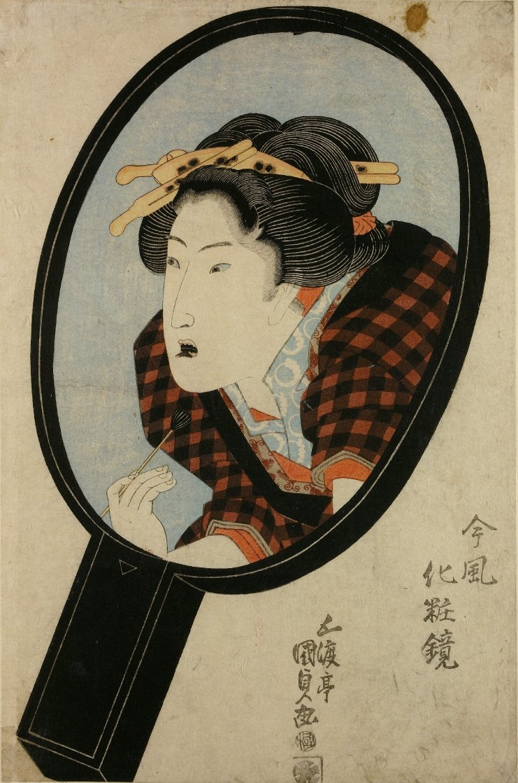 woodblock print by Kunisada I, signed ’Gototei Kunisada ga’, series ’Mirrors of the modern boudoir’, title ’Tooth blackening’, publisher Azumaya Daisuke, date c. 1823